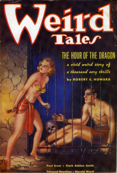 Cover of the pulp magazine Weird Tales (December 1935, vol. 26, no. 6) featuring the Conan novel The Hour of the Dragon by Robert E. Howard.